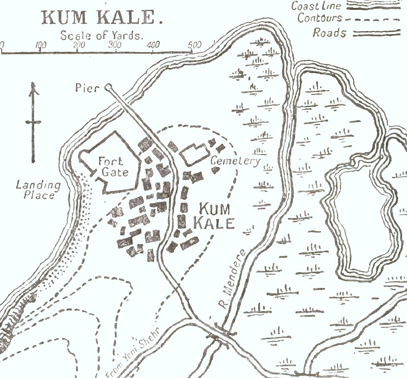 Diagram of village and Fort of Kum Kale, Asiatic shore, Dardanelles, 1915